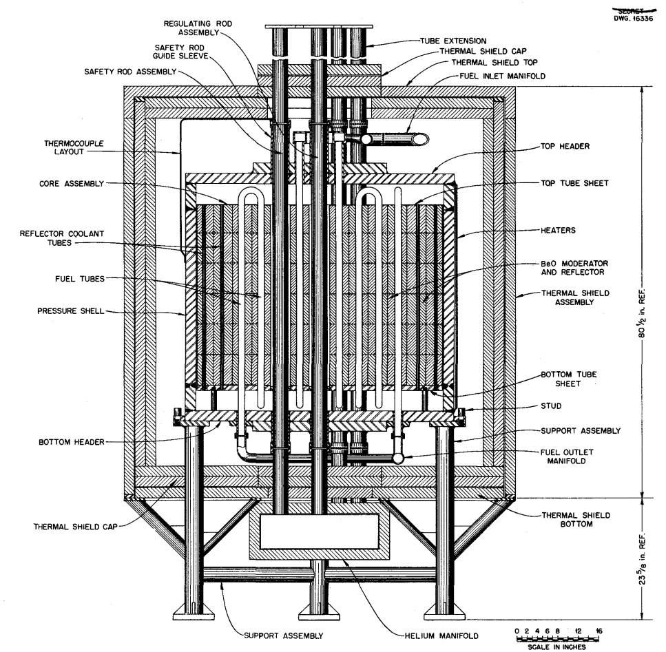 A cross-section of the fluid-fueled Aircraft Reactor Experiment, an experimental nuclear reactor that operated in 1954